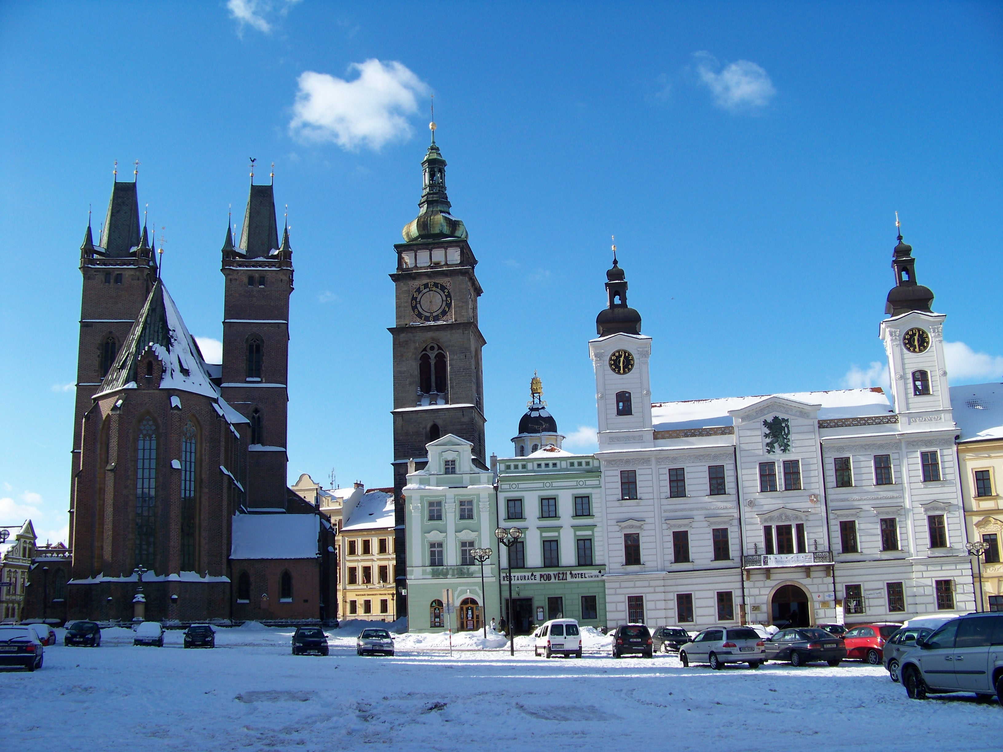 Hradec Králové, the Czech Republic. Velké Square, the West side, the Cathedral of the Holy Spirit, the White Tower and the town hall.